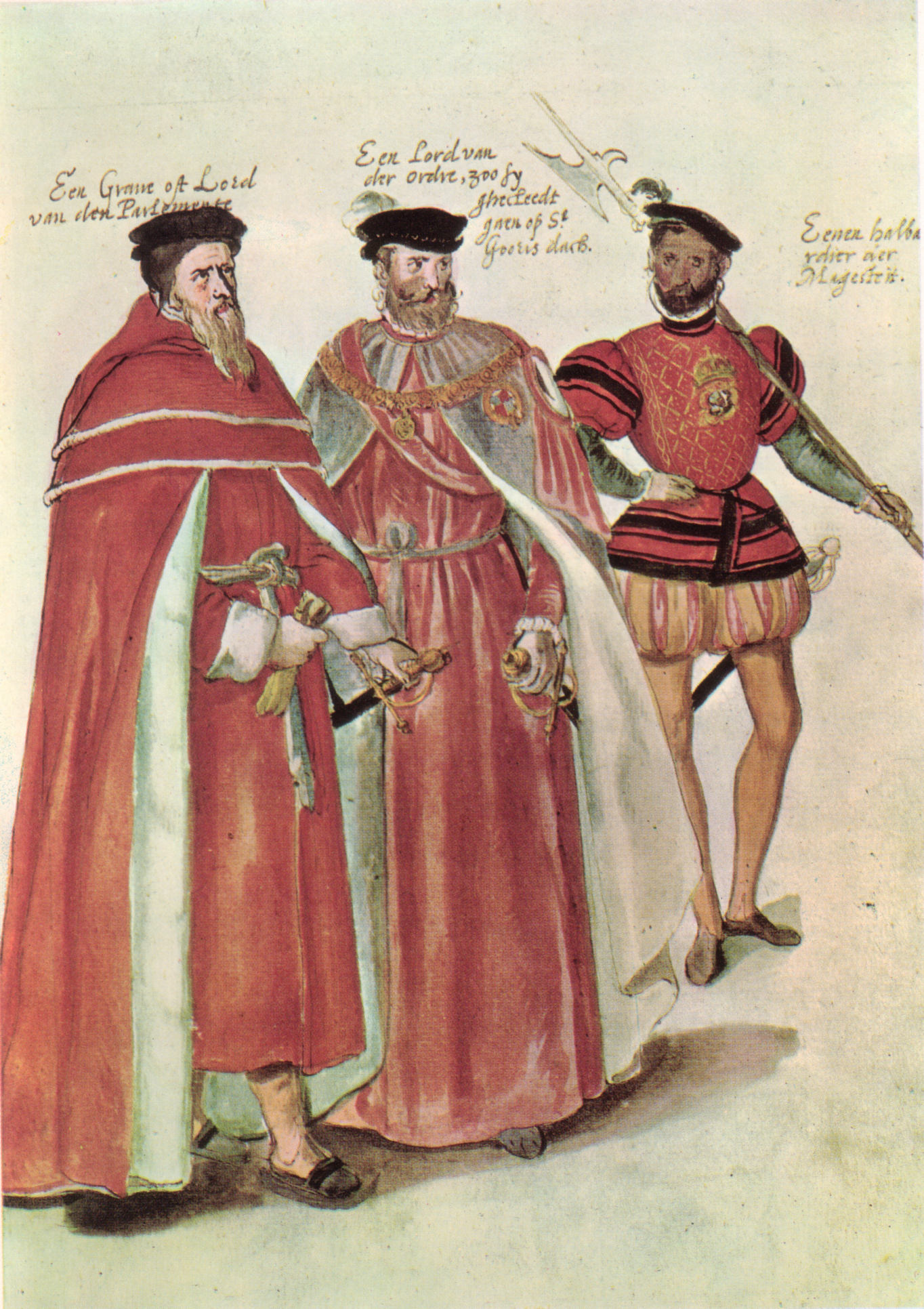 Two peers, the one in left in Parliamentary robes and the one in the center in the robes of the Order of the Garter, and a halberdier in the livery of Elizabeth I of England